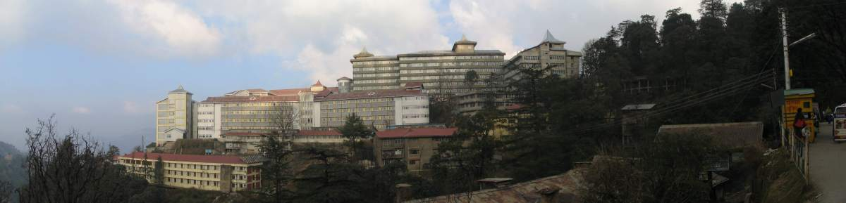 This is a 'stitched picture' build from left to right photo-shots of Snowdon Hospital taken from near Lakkar bazar